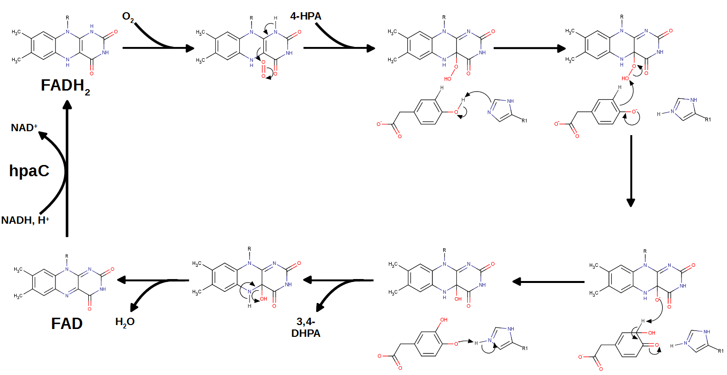 Catalytic cycle of the enzyme 4-hydroxyphenylacetate 3-monooxygenase, also showing FADH2 regeneration by flavin oxidoreductase partner.